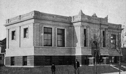 Picture postcard of the Carnegie Library at Devils Lake, North Dakota. According to source information at the NDSU web site, the postcard dates from between 1910 and 1920. As first publication was before 1923, it is in the public domain.